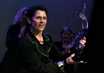 Grietine Molenbuur receives the oevreprize 2006 from the LCA, an Kunstfactor Danceprize